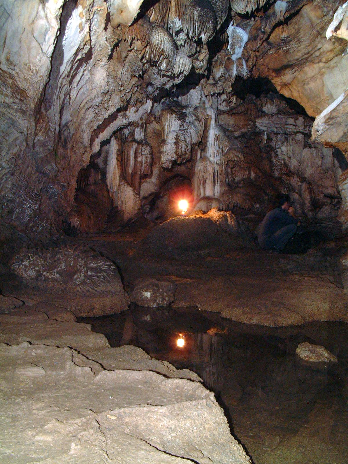 Selenitsa-Dracos-Cave (aka Katafyghi; Messinia, Peloponnese, Greece)